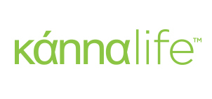 Corporate logo